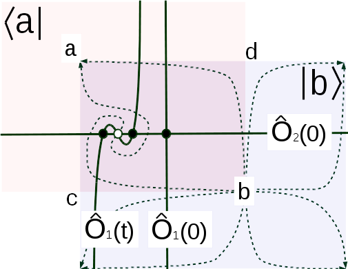 Figure representing instanton matrix element in STS